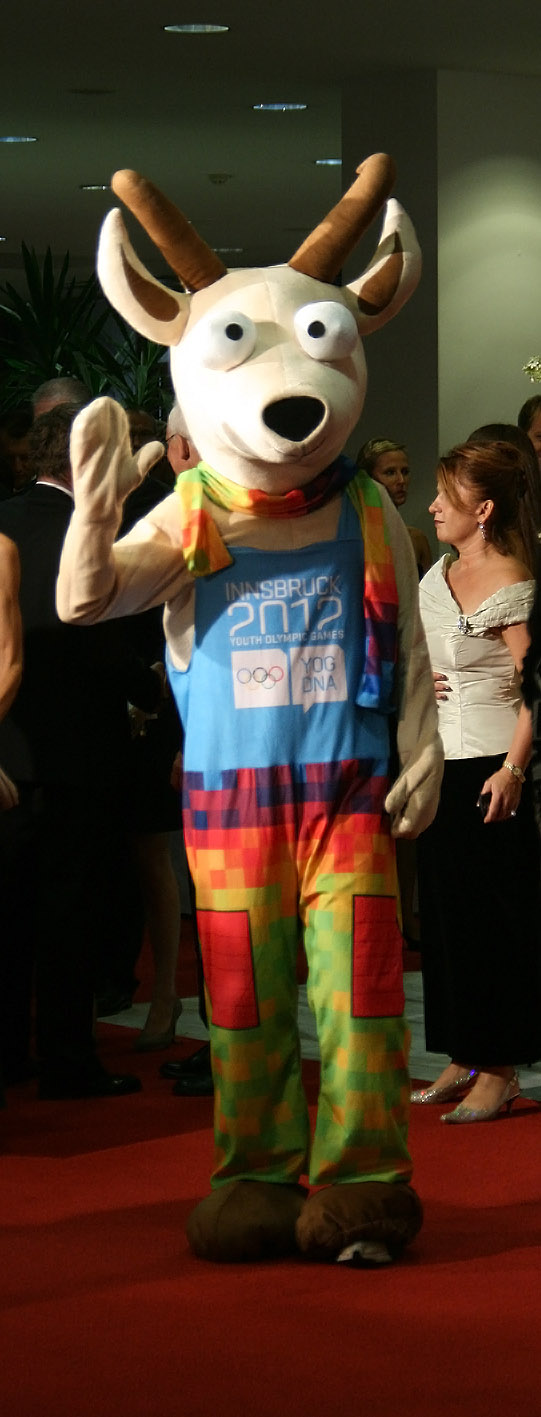 Yoggl, mascot of the 2012 Winter Youth Olympics, at the presentation of the Austrian Sportspersonalities of the Year 2011 (Eventhotel Pyramide in Vösendorf, Lower Austria).